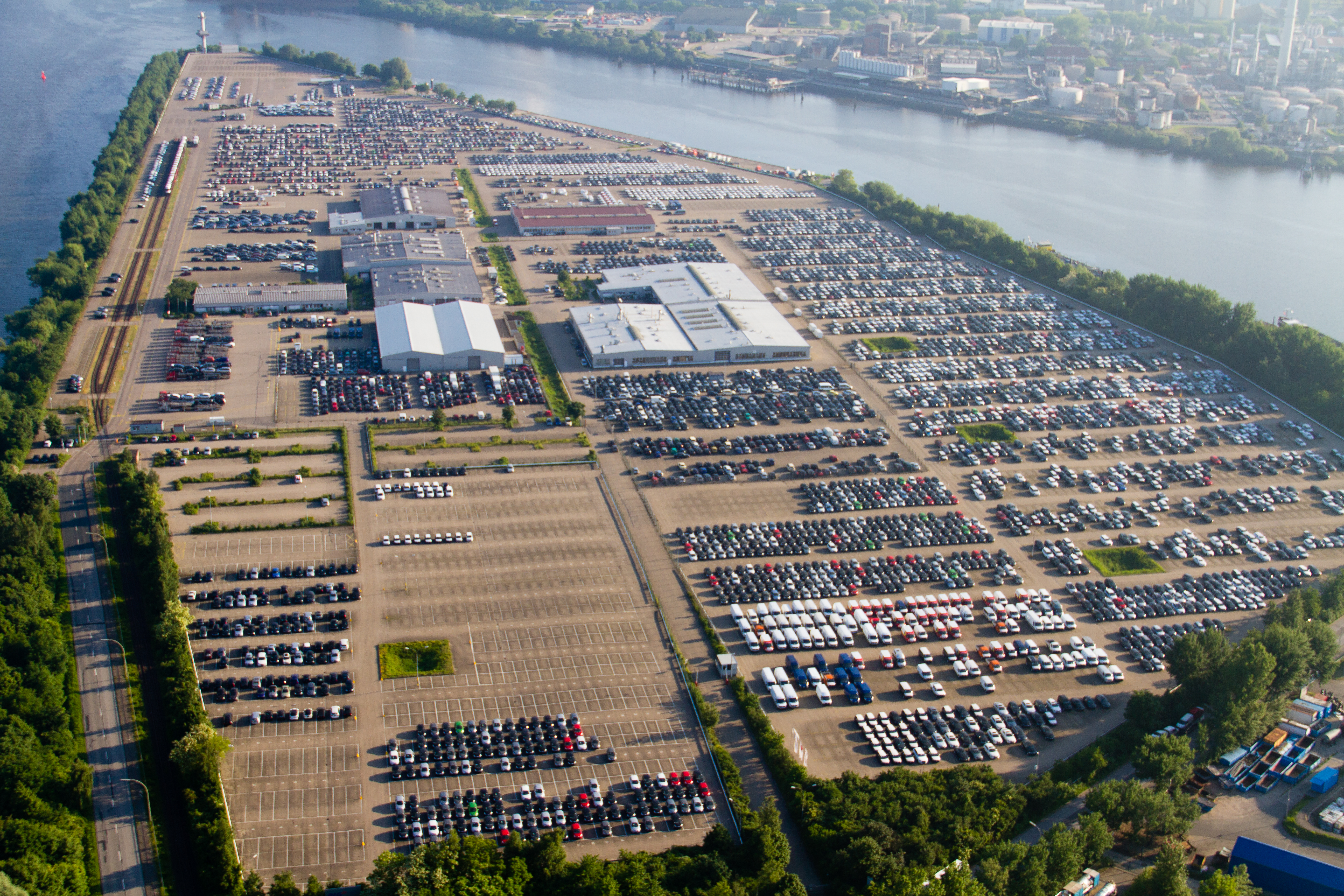 BLG Logistics Group